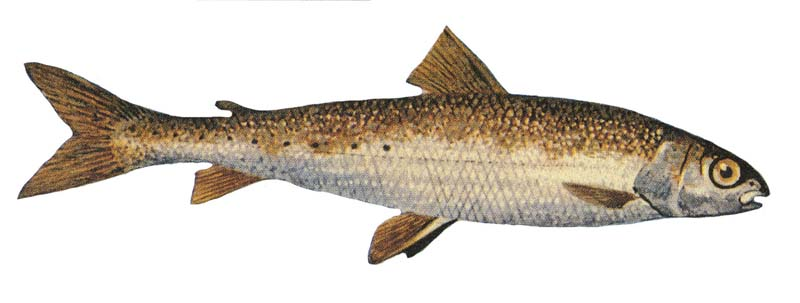 Category:Salmoniformes images